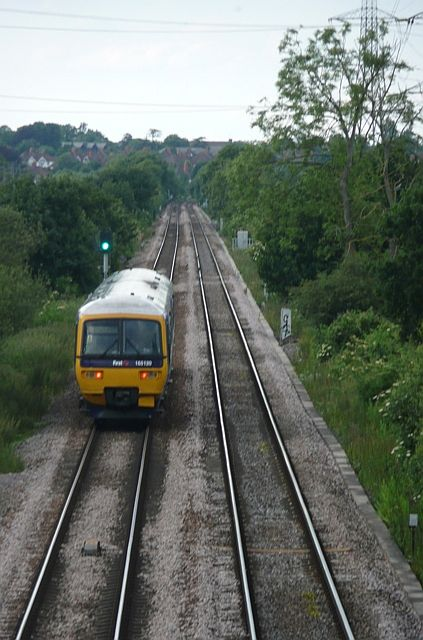 Basingstoke to Reading service